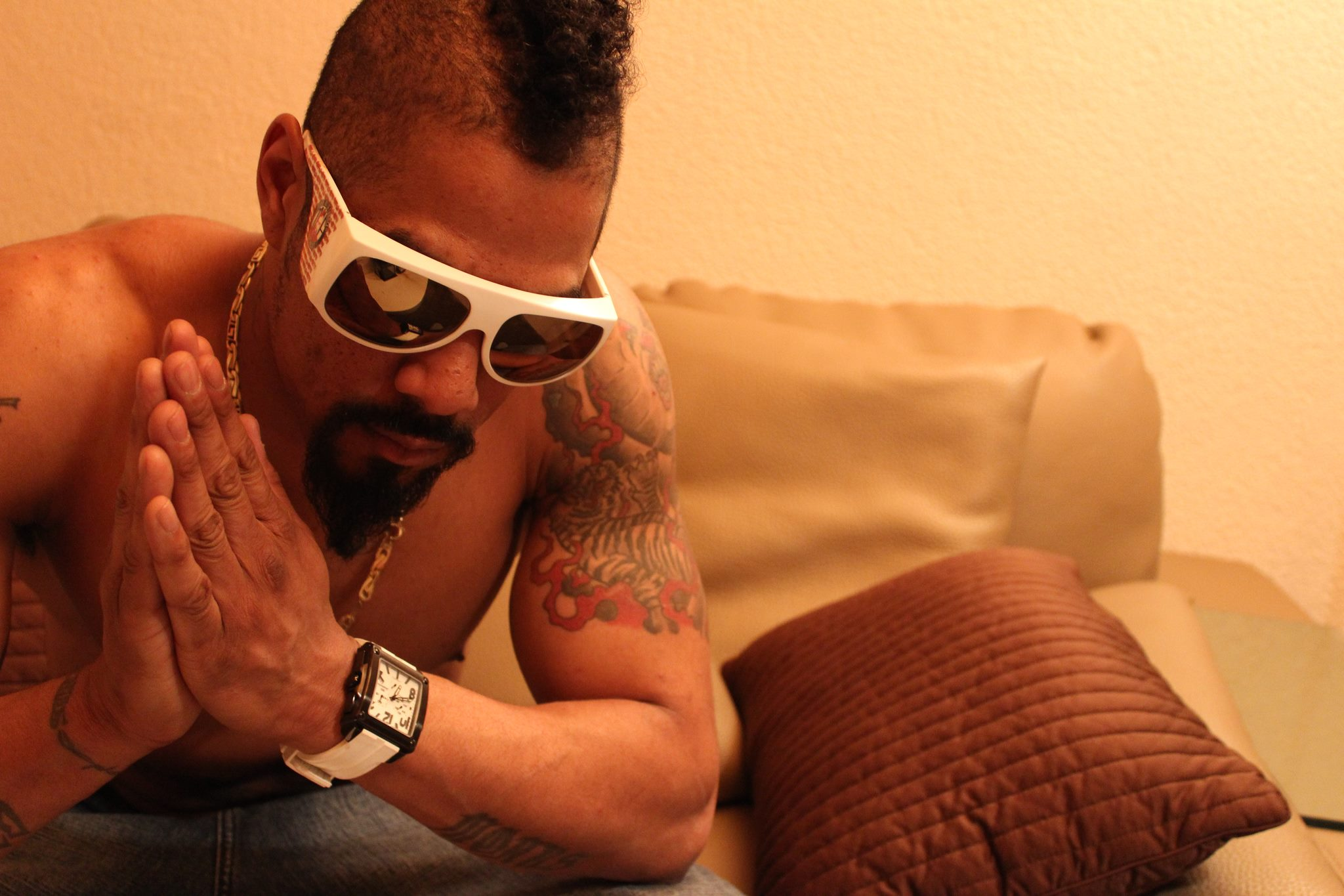 Afu-Ra wearing sunglasses